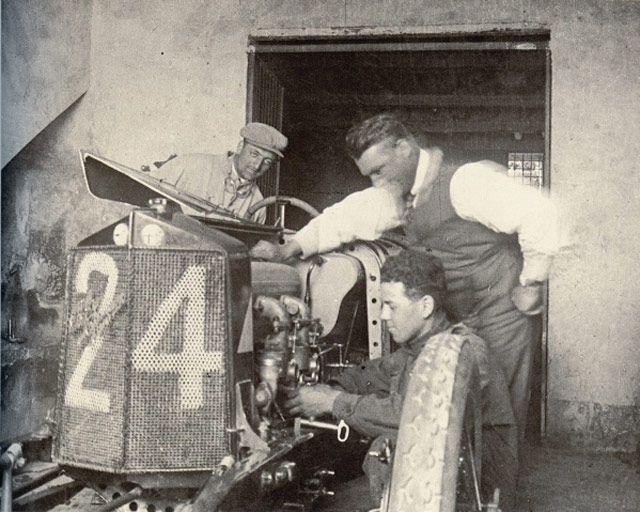 Alfa Romeo racing people in 1924, Antonio Ascari (standing leaning on the car, right), Enzo Ferrari (behind, left) and Giulio Ramponi (mechanic, sitting with hands inside engine) fixing Ascari's Alfa Romeo RL TF entry #24 at the XV Targa Florio (and VII Coppa Florio) on Sunday 27 April 1924, the car failed just before the end as Ascari was leading, and thus did not finish.[1] This was one of the 6 special RL TF (=Targa Florio) made for this race.